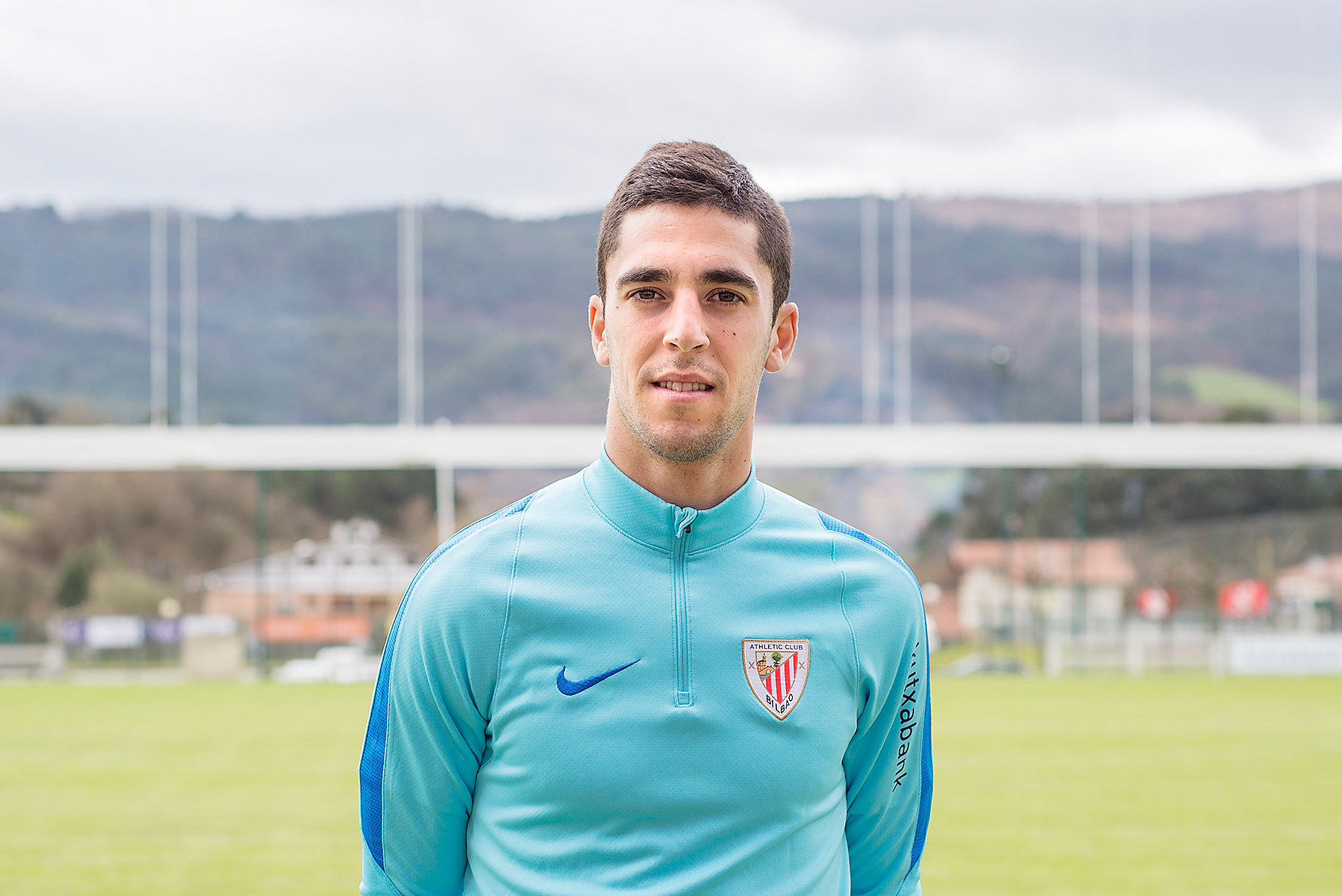 Sabin Merino, Athletic Bilbao